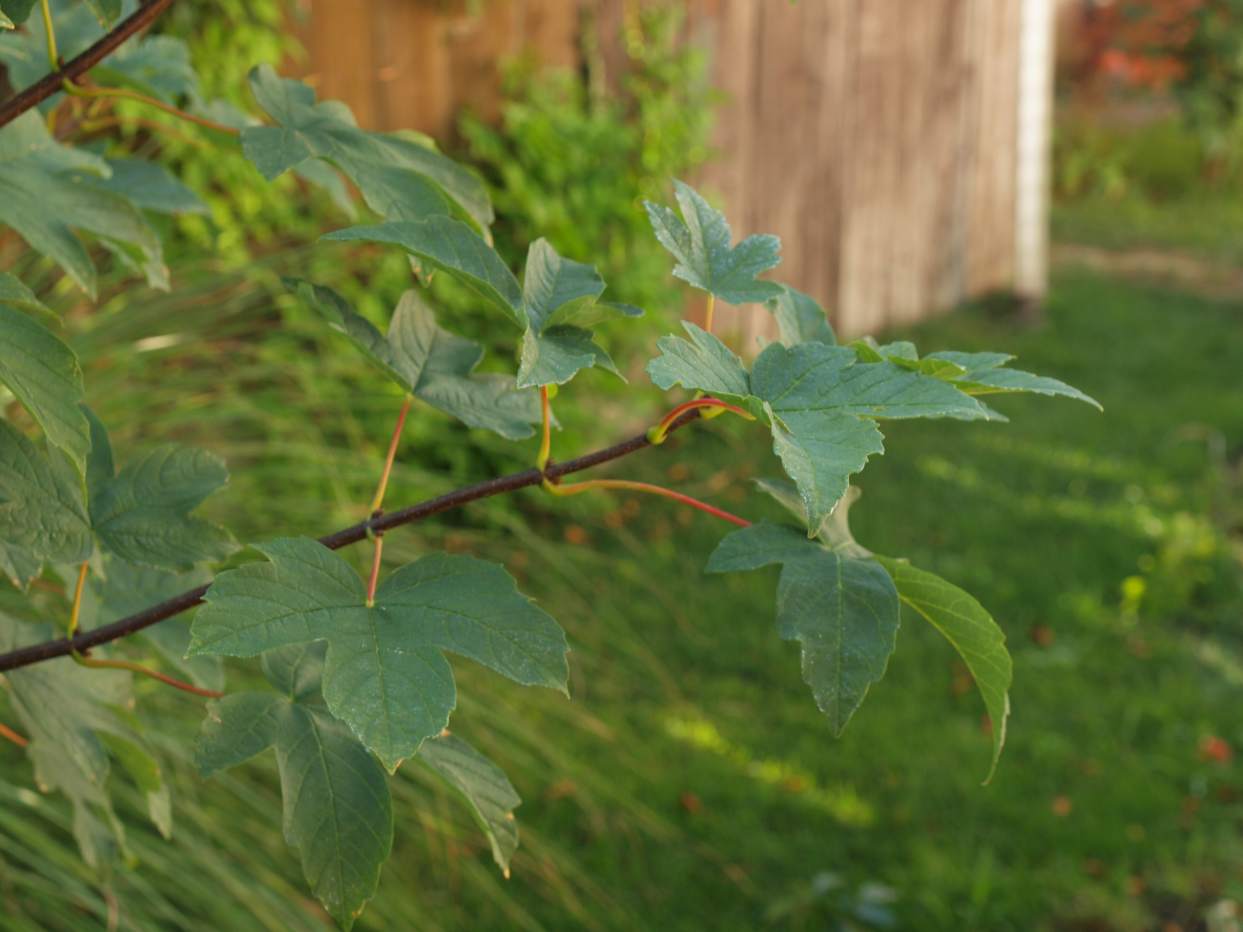 Acer heldreichii ssp. visianii cultivar collceted in the wild Mt. Orjen Montenegro